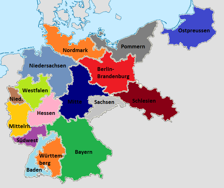 Map of the Sportgaue (Gauligen) of Nazi Germany in 1933